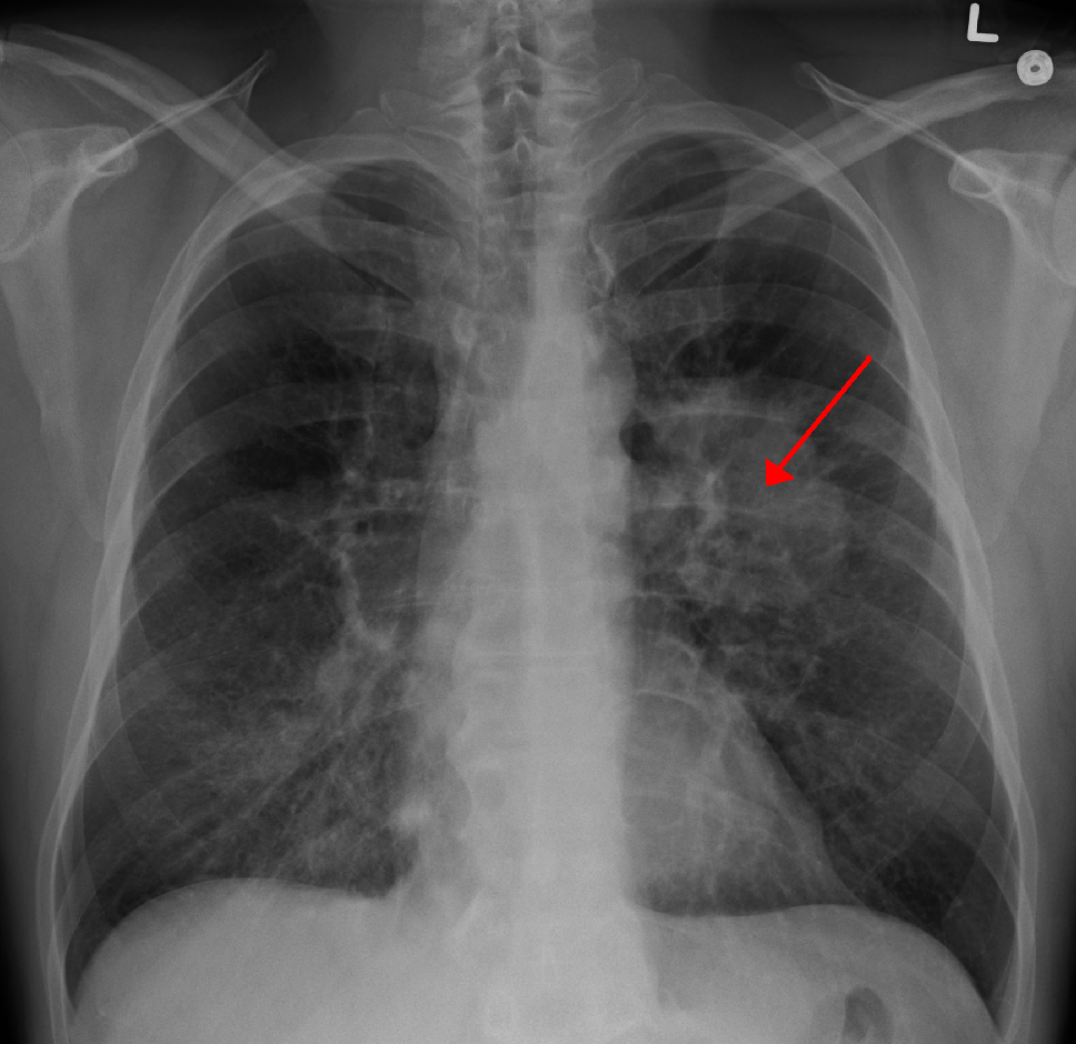 Lung CA seen on CXR